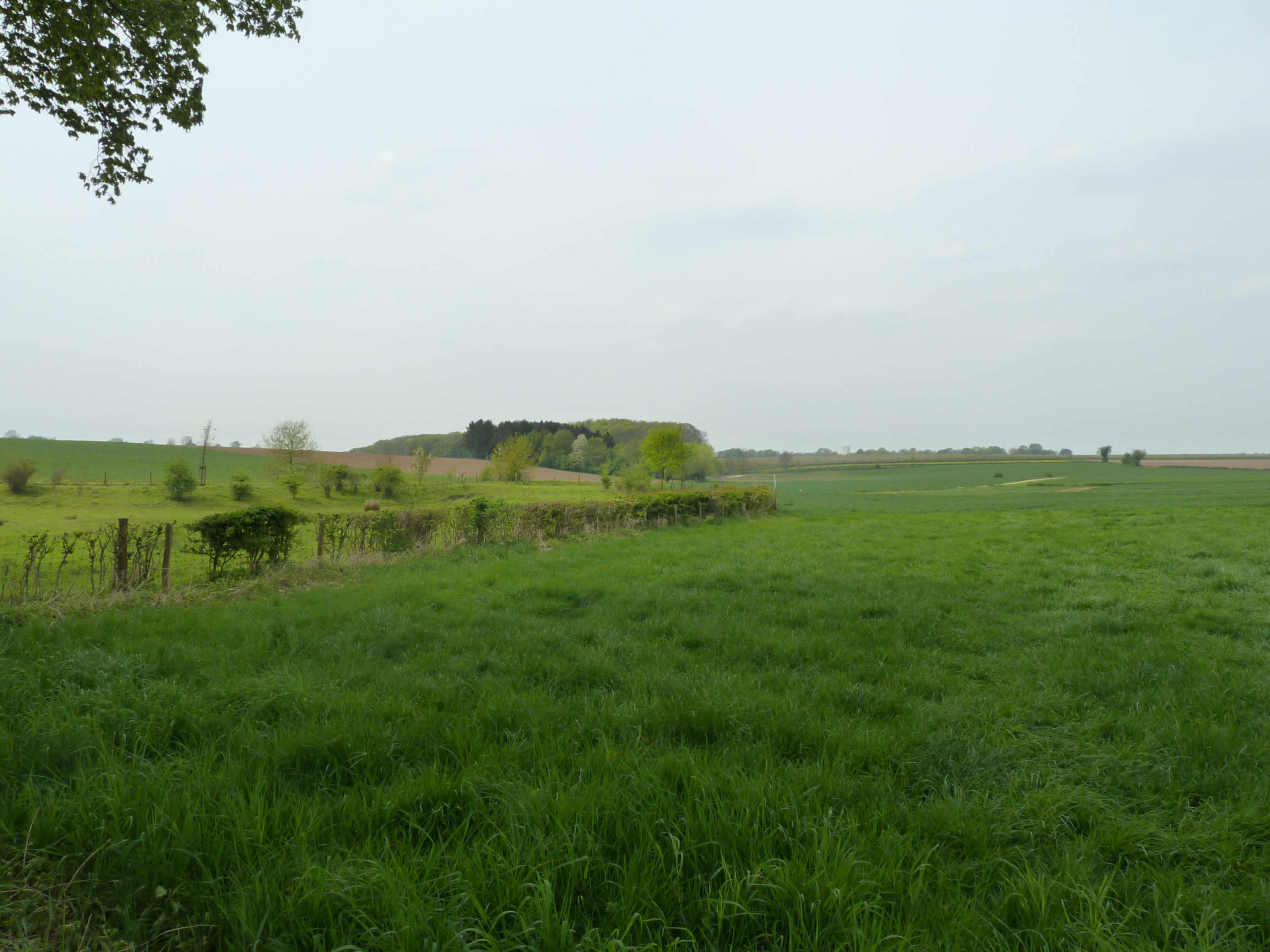 Location of the gallow of Margraten, Termaar/Bruisterbosch, Eijsden-Margraten, Limburg, Netherlands